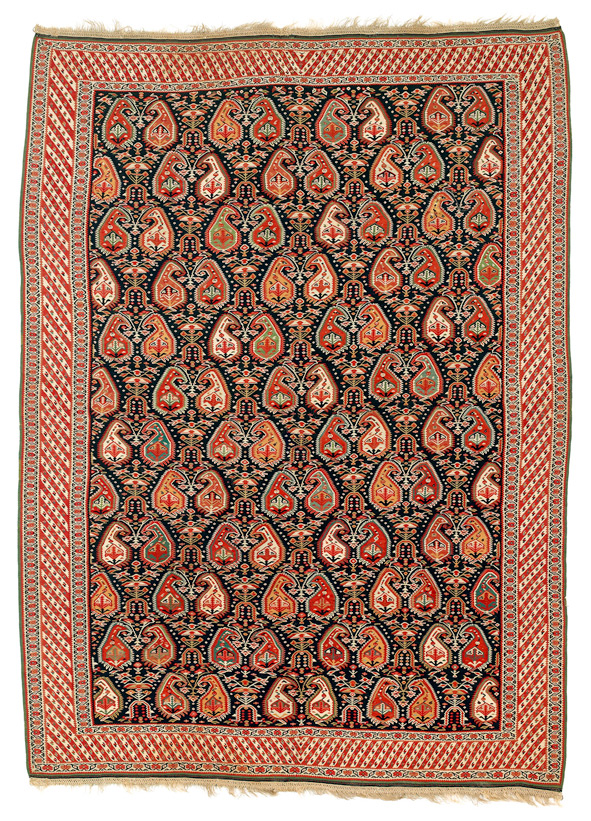 Lot 169, The “Jacoby” Sehna Kilim ca. 180 x 130 cm, North West Persia, Kurdistan, 1. H. 19. Jh. Estimate: 24.000 – 28.000 Euro